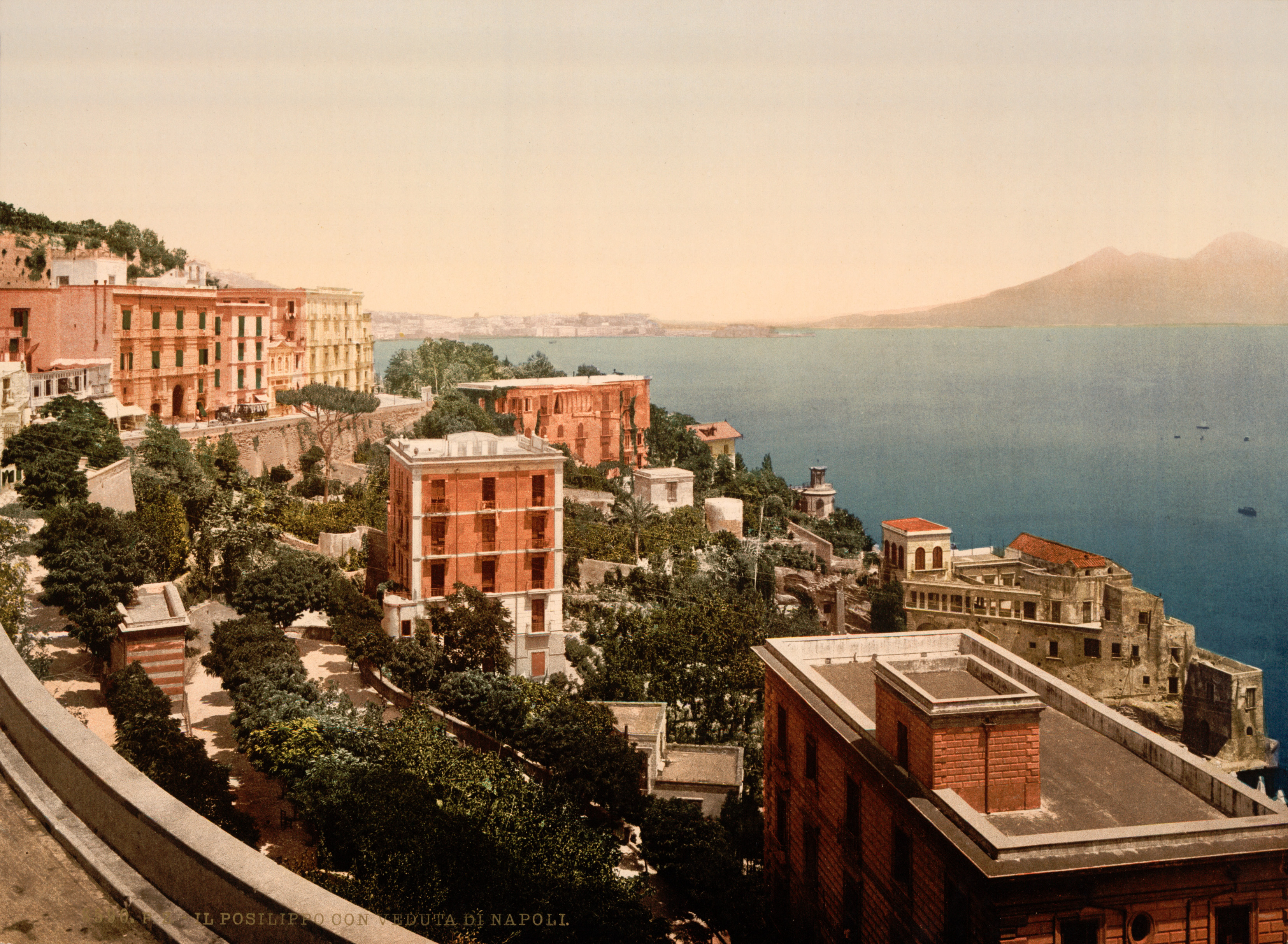 Posillipo and waterfront, Naples